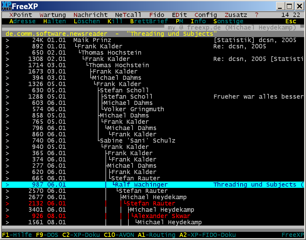 FreeXP (CrossPoint) in a DOS console under Windows XP.